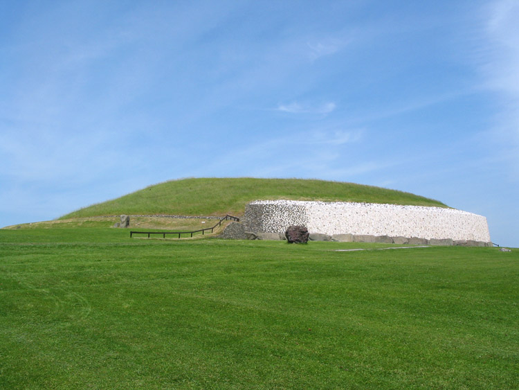 Newgrange, Ireland.